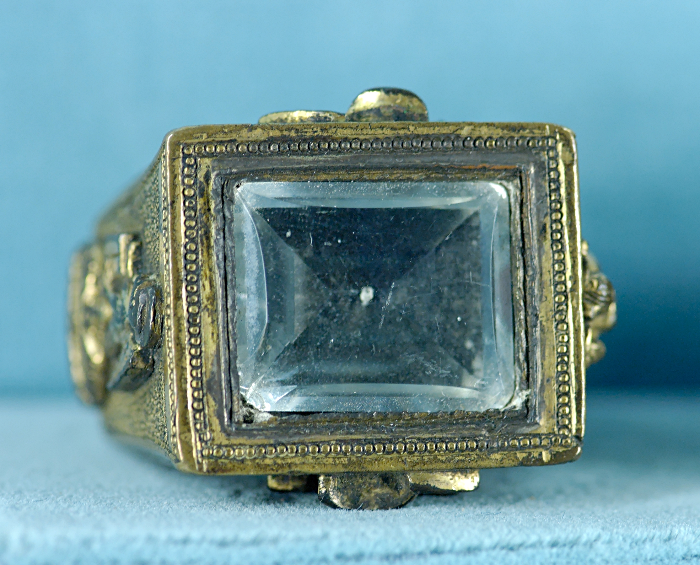 Ring of Pope Paulus II. Gilt bronze and rock crystal, Central Italy, 1464–1471.